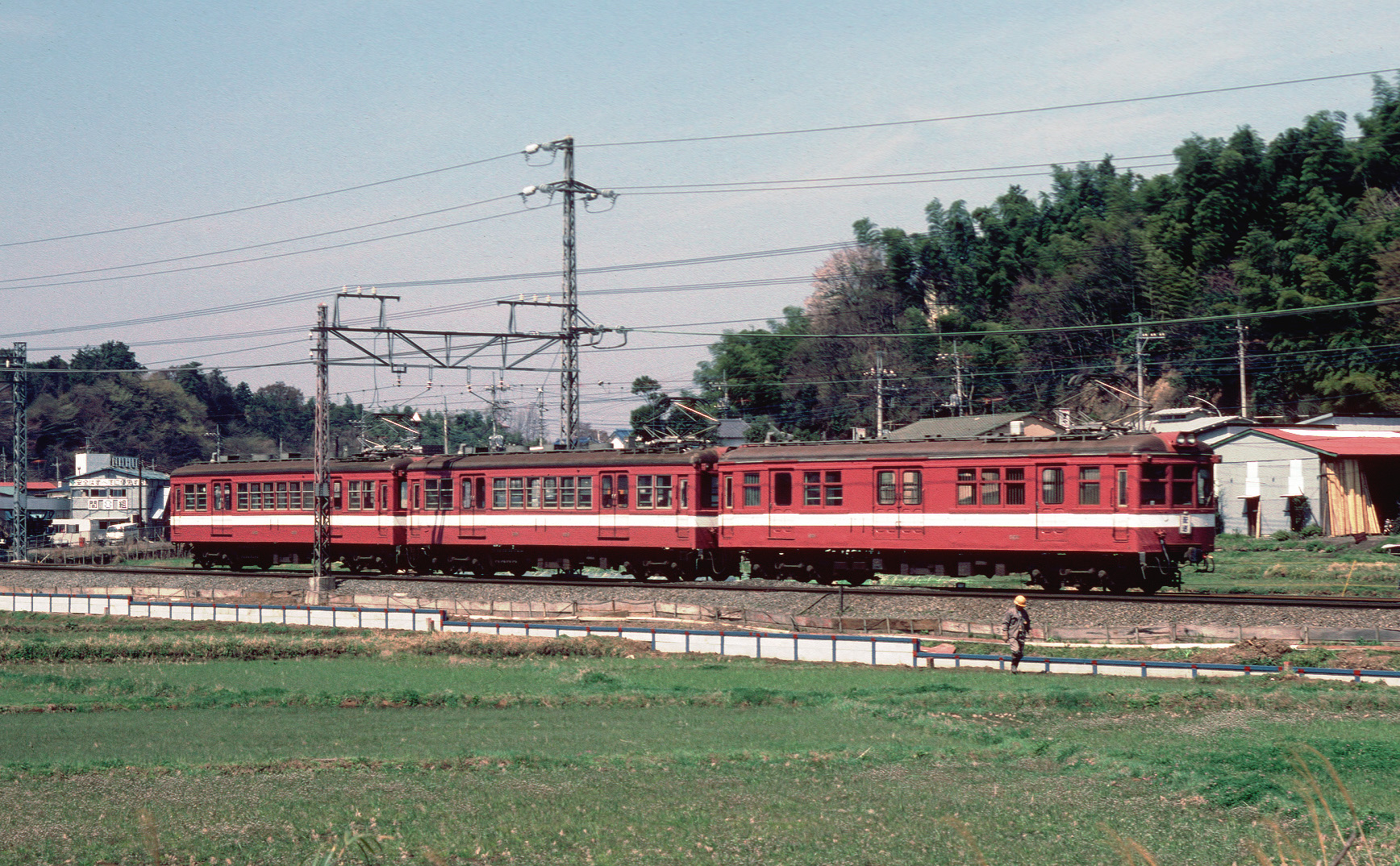 Odakyu Electric Railway's baggage train running between Tsurukawa and Kakio.